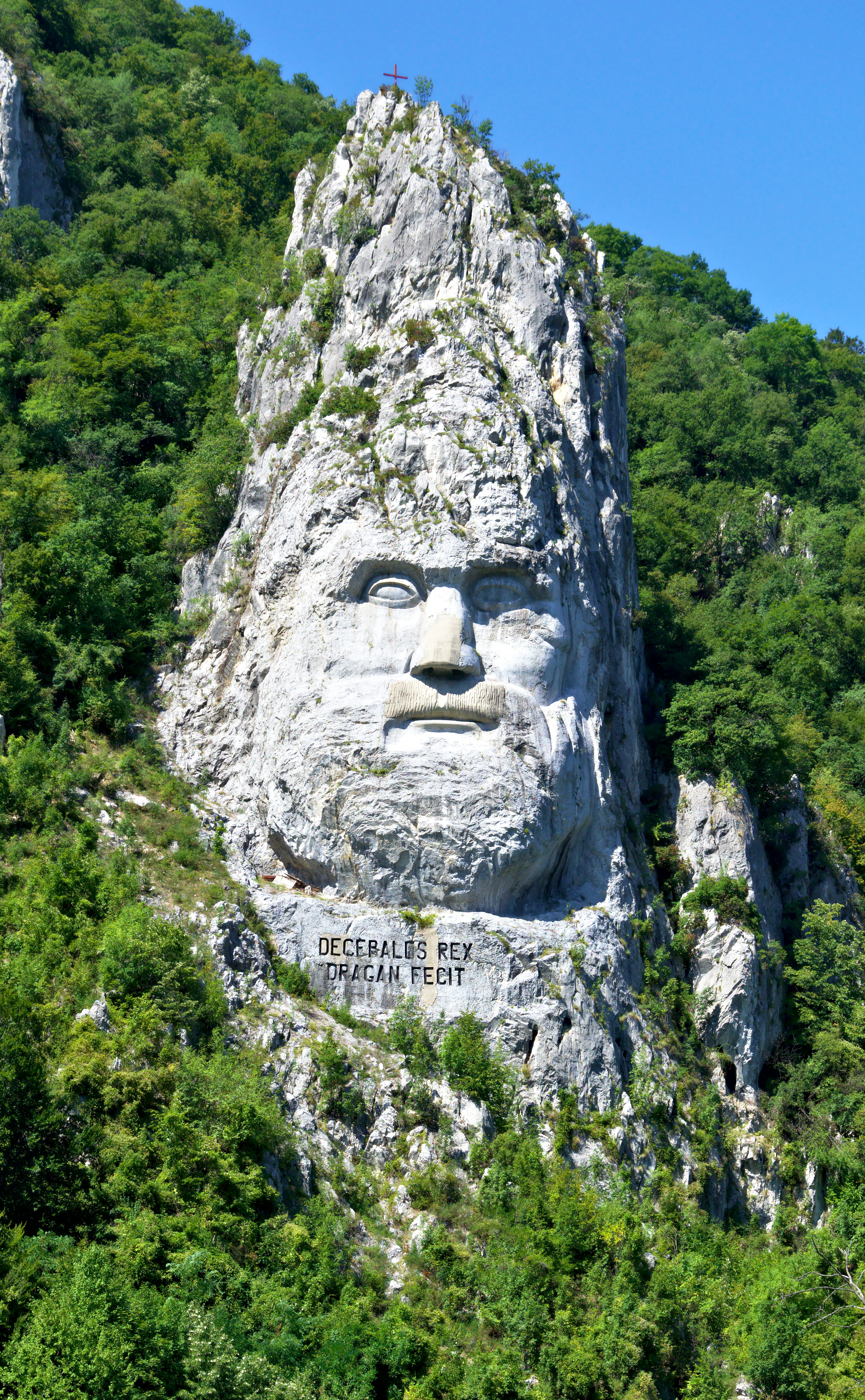 Frontal view of the Decebalus rock sculpture, located near Danube's Big Boilers on the border between Serbia and Romania.